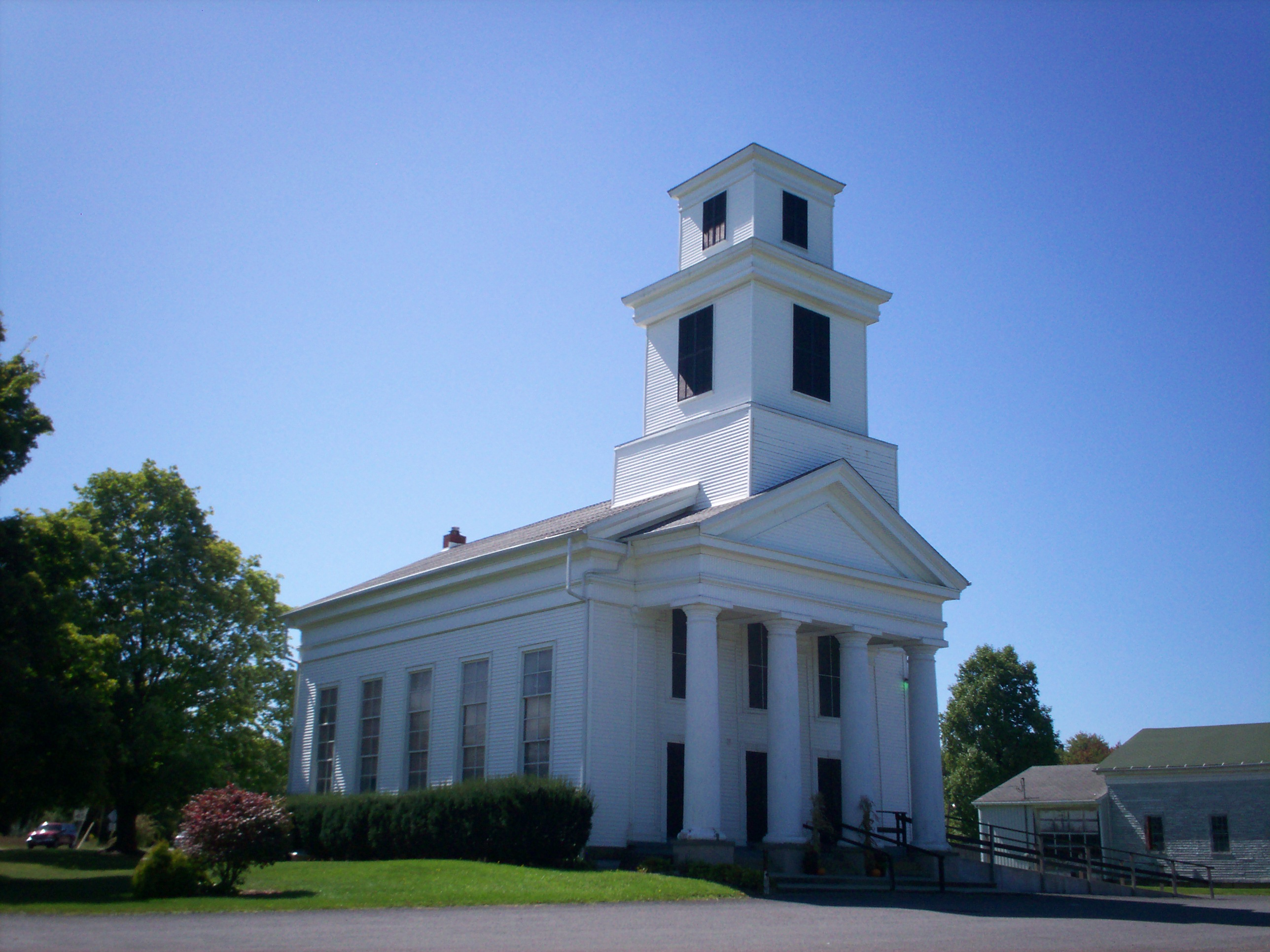 Freedom Congregational Church along State Route 88 in Freedom Township, Portage County, Ohio. It has been listed on the National Register of Historic Places since 1975.